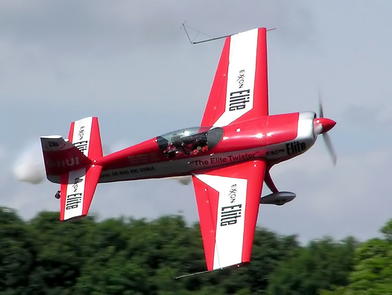 Extra EA300S (UK registration G-IIUI, year of build 1992) at Kemble Airfield, Gloucestershire, England. Photographed by Adrian Pingstone in July 2005 and released to the public domain.